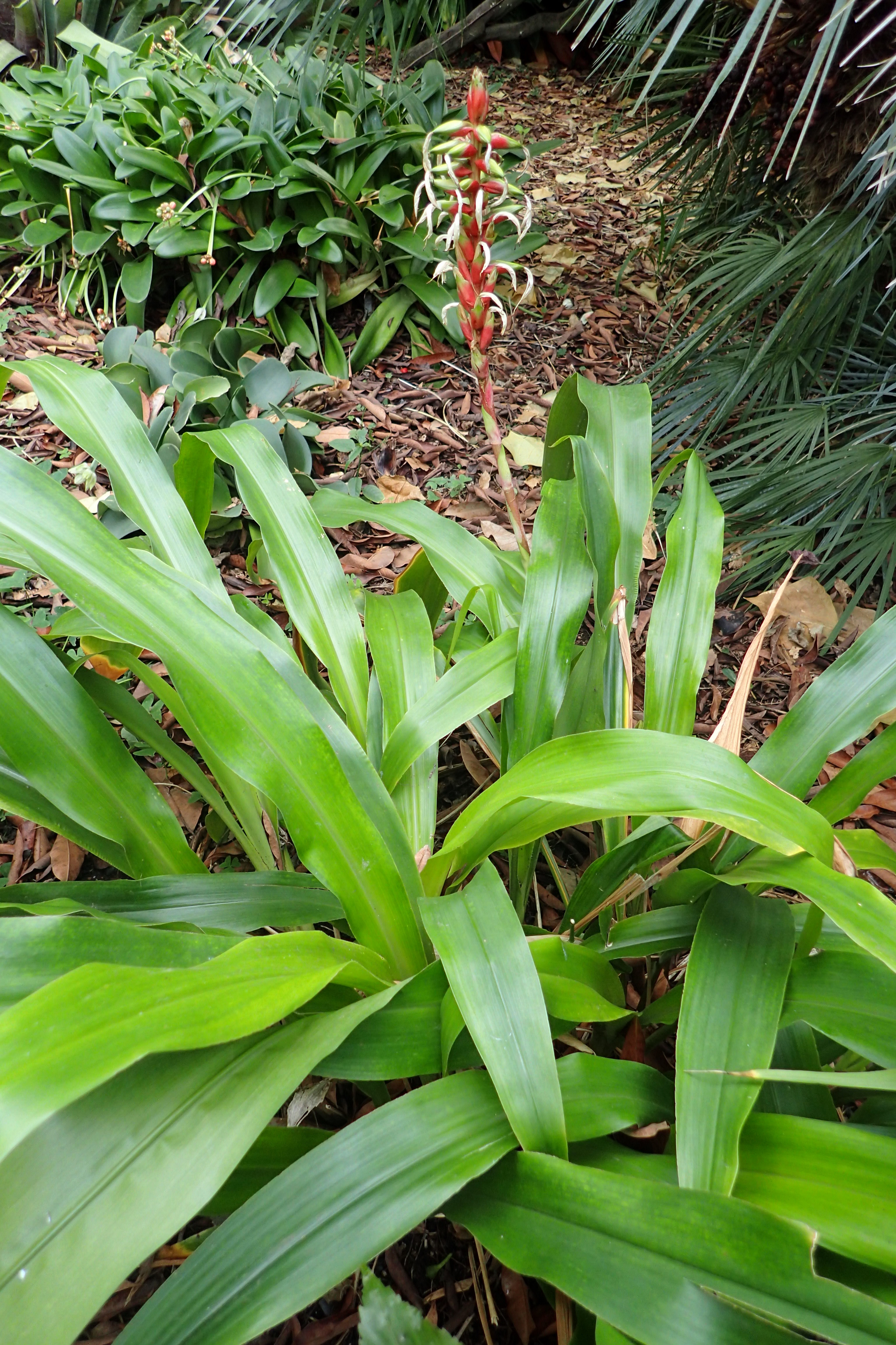 Pitcairnia maidifolia in Jardín de Aclimatación de la Orotava